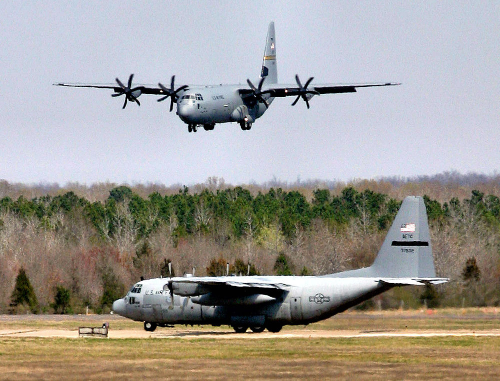 J Model Improves Fleet The C-130J Hercules is the latest addition to the C-130 fleet at Little Rock Air Force Base, Ark., Dec. 8, 2005. Compared to older aircraft, the J model climbs faster and higher, flies farther at a higher cruise speed, and takes off and lands in a shorter distance. U.S. Air Force photo by Senior Airman Tim Bazar